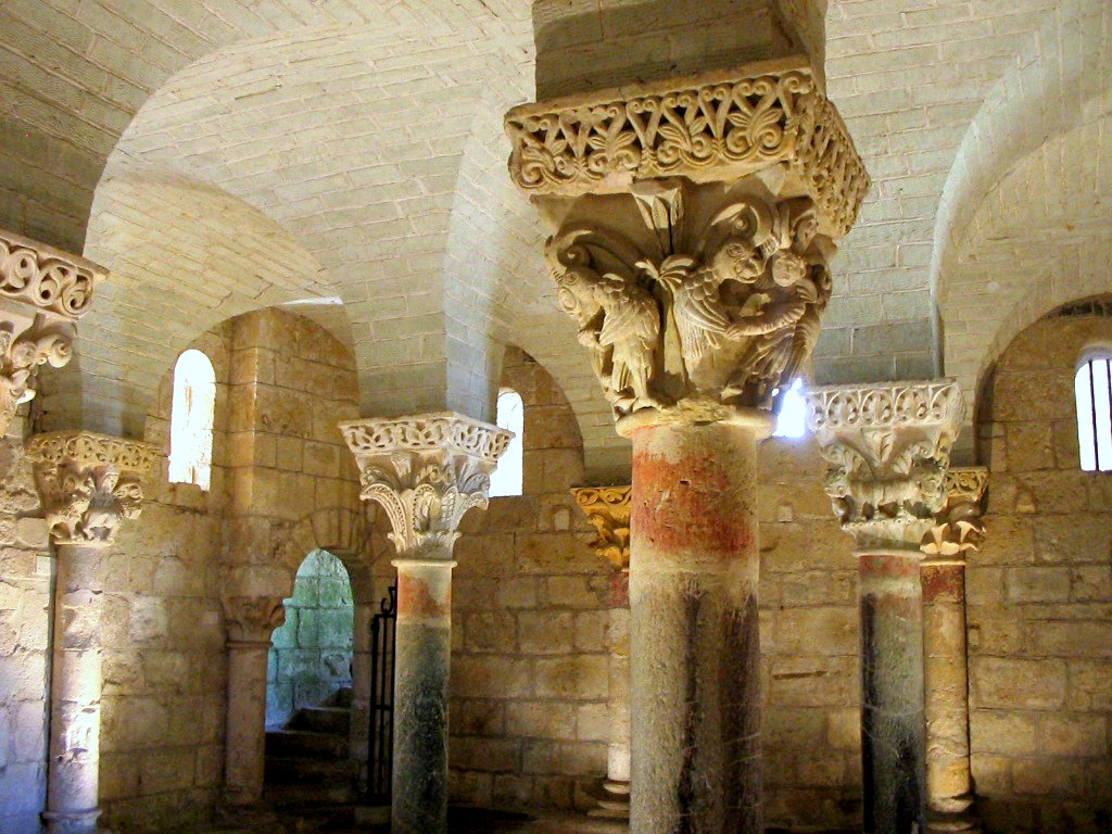 Crypt of St. Girons, Hagetmau (The Landes, France)